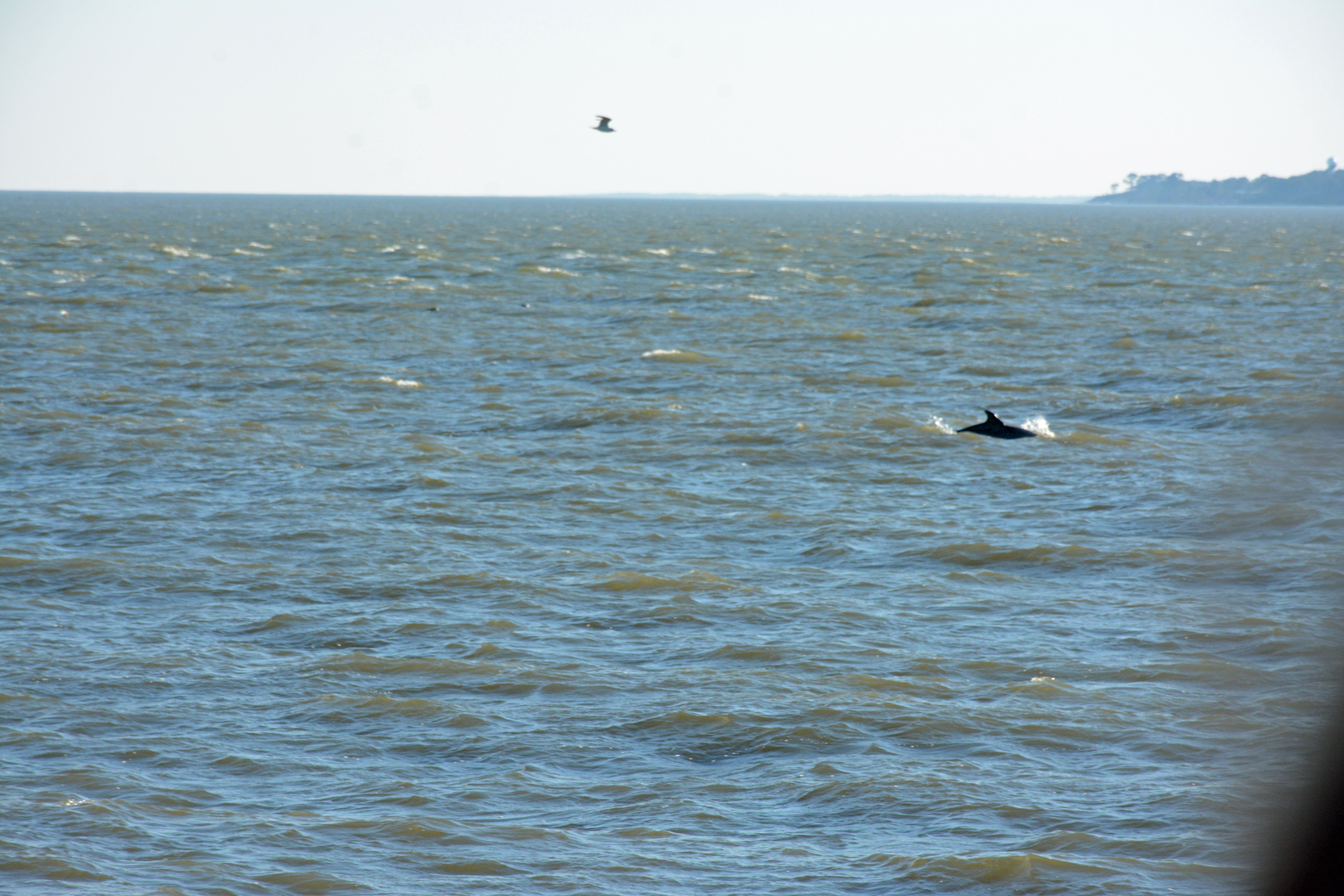 St. Simons Sound, as seen from St Simons, Georgia. A bird and dolphin are seen. Jekyll Island is to the right and Cumberland island is visible in the distance, to the left of Jekyll Island.